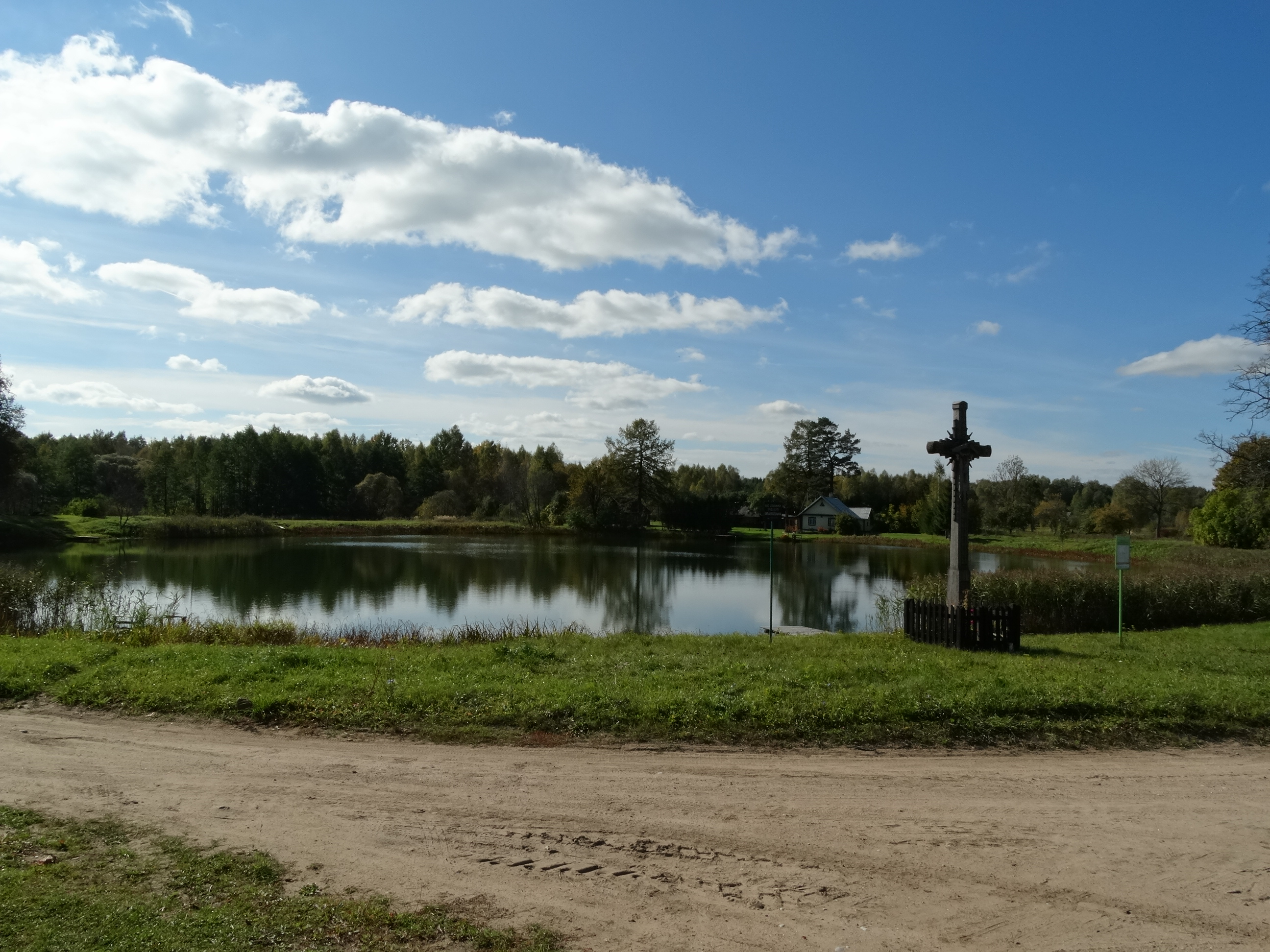 Kaukinė Lake, Kaišiadorys district, Lithuania